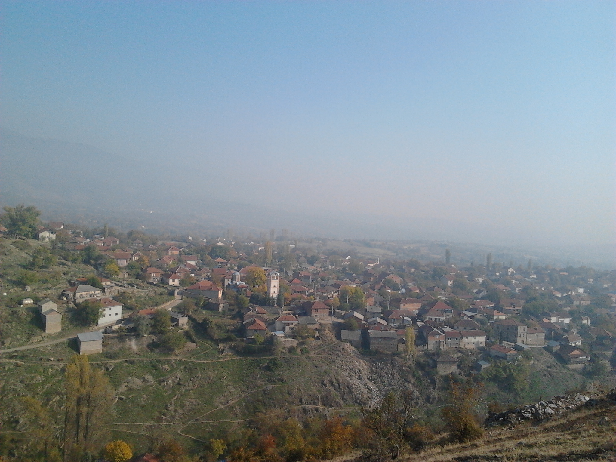 village of Kuchevishte, Macedonia